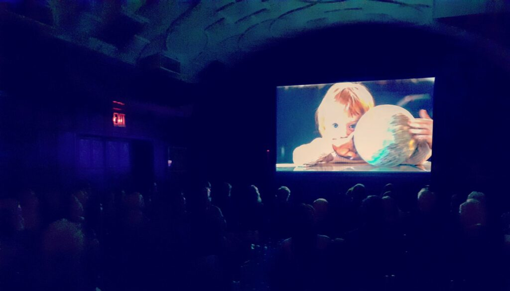 The US premiere of the documentary film Cosmic Birth took place at the Explorers Club in New York City on November 15, 2019. After the film, astronaut Richard Garriott moderated a Q&A with the film's writer and co-director Orly Orlyson.